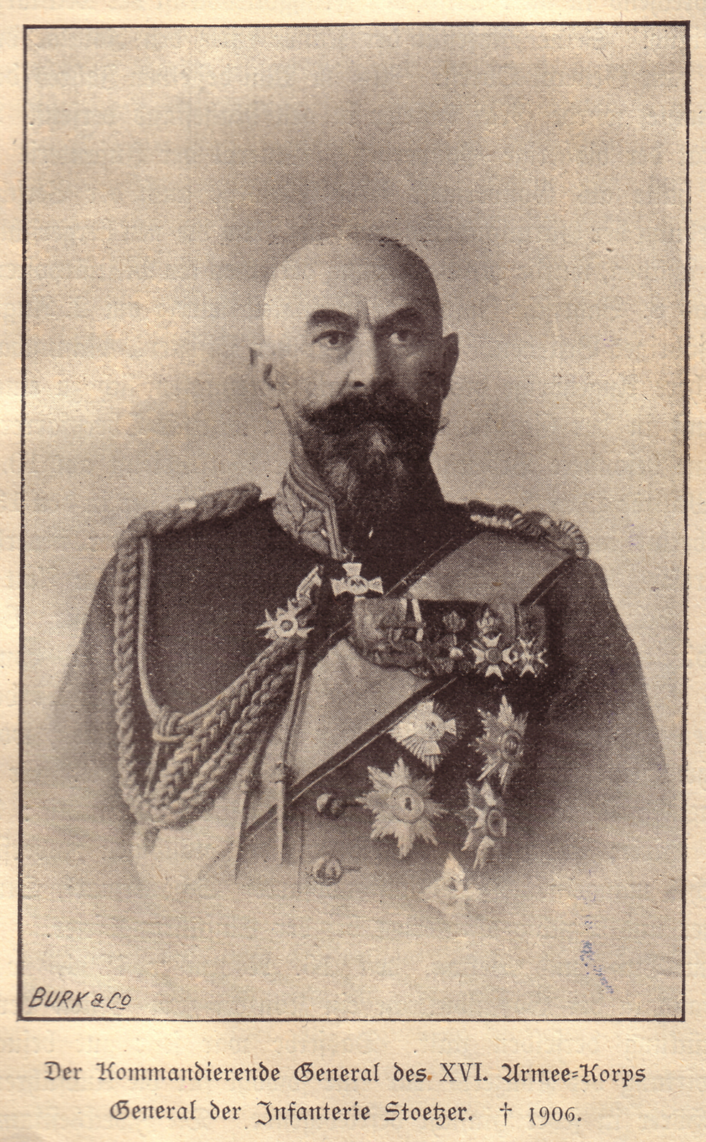 Picture from the prussian General Louis Stoetzer